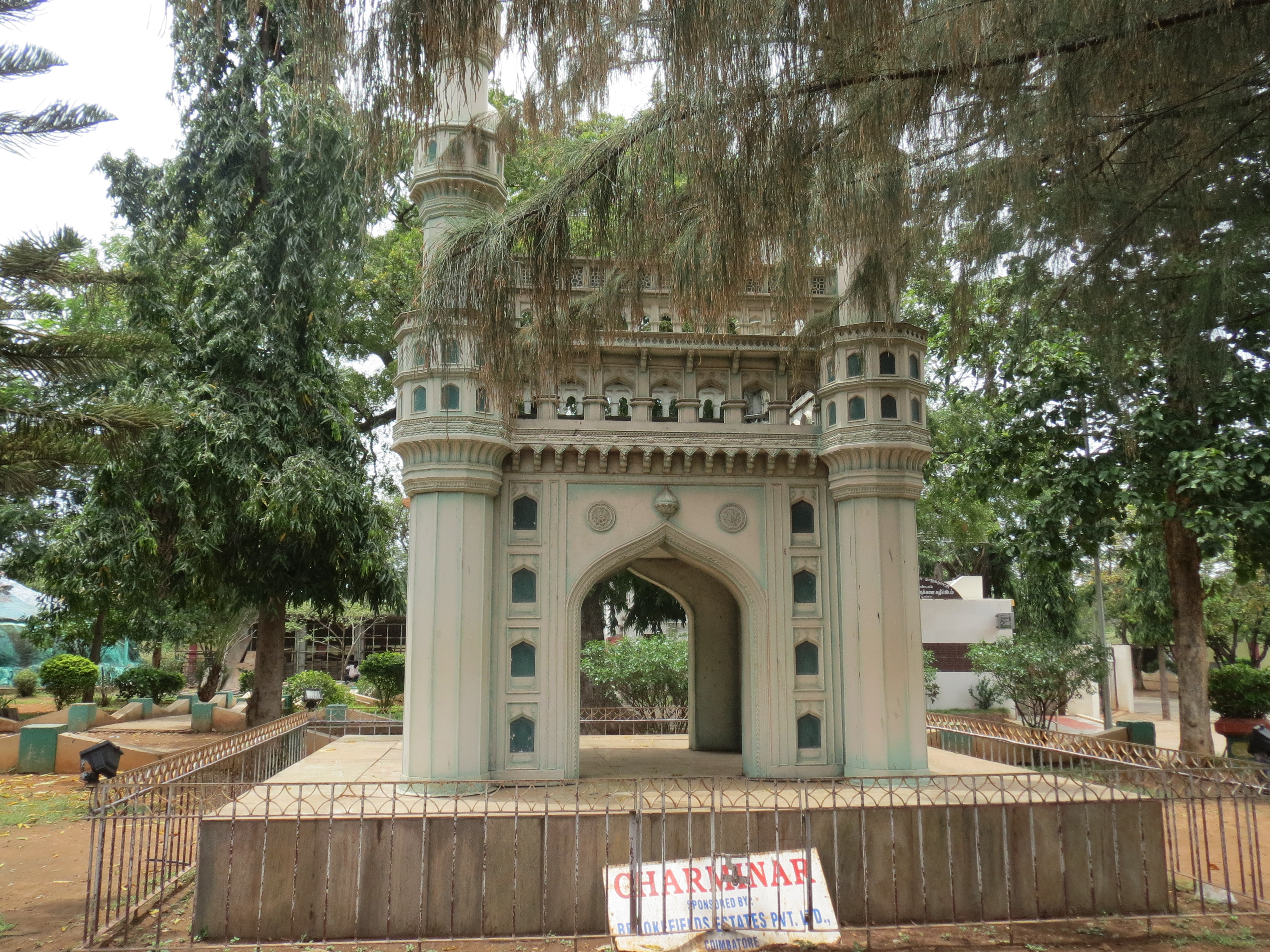 Chanminar Model-Voc Park, Coimbatore.